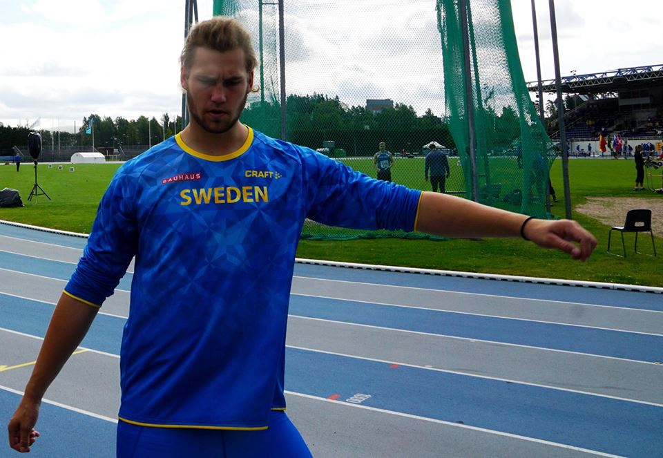 Gardenkrans